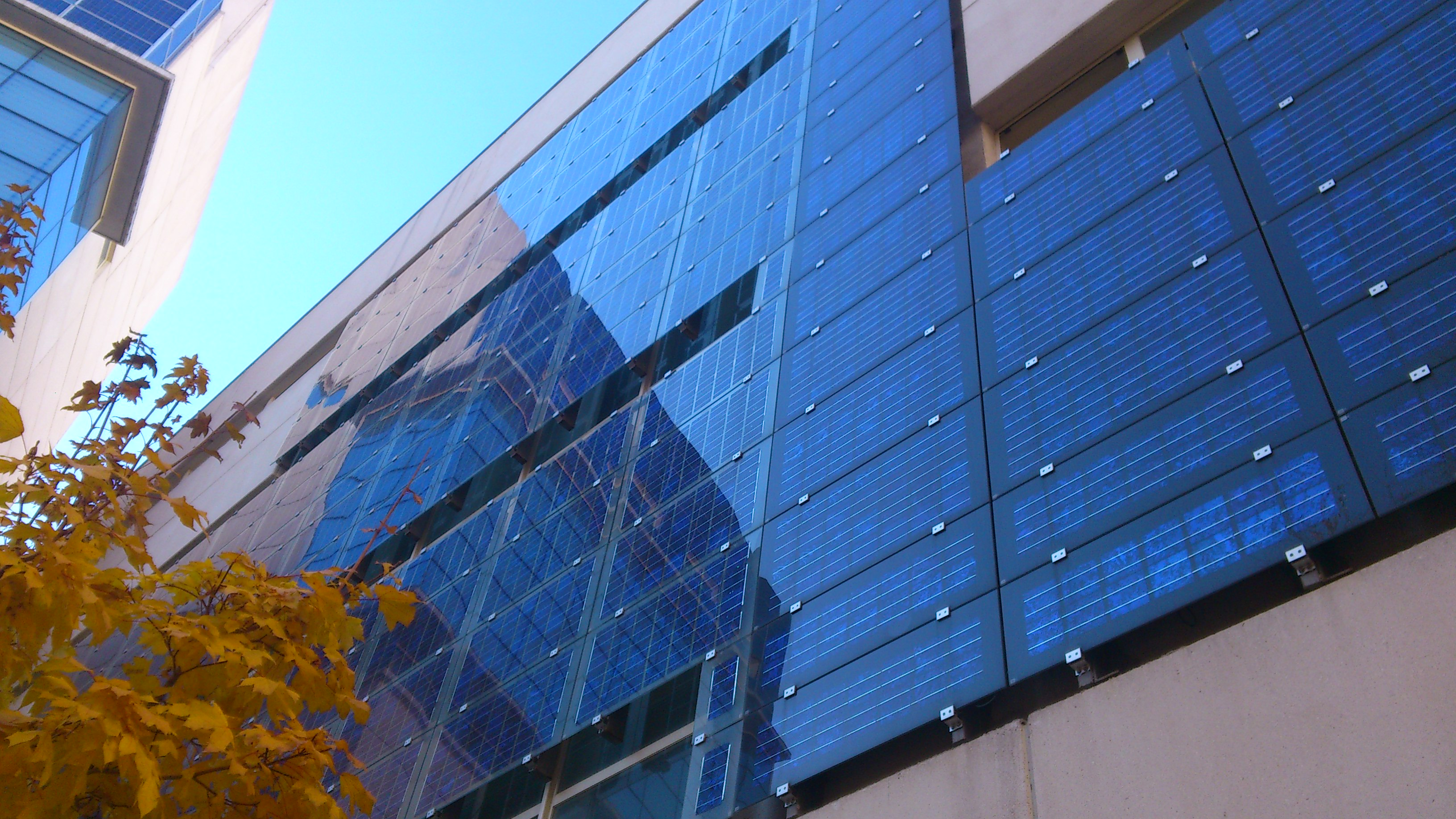 Photovoltaic solar facade on a municipal building, Social Services Centre Jose Villarreal, located in Madrid (Spain)